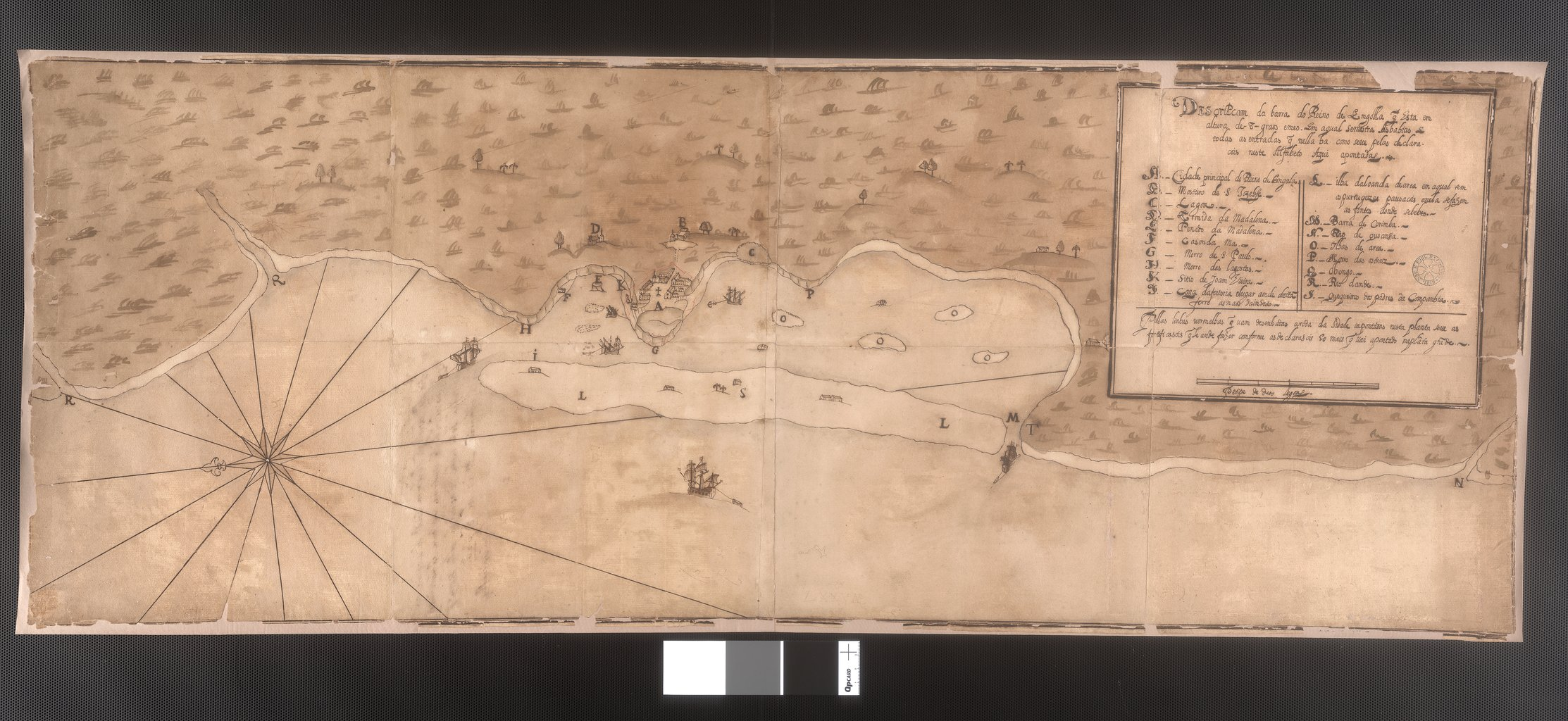 This 17th-century manuscript map is an early depiction of the harbor and city of Luanda, on the coast of Angola. Founded by the Portuguese in 1575, Luanda became the administrative center of Portuguese rule in Angola in 1627, one year after this map was made. The port of Luanda was also the center of the Angolan slave trade, controlled by the Portuguese Empire, and which is estimated to have supplied around one-quarter of all African slaves sent to the Americas.